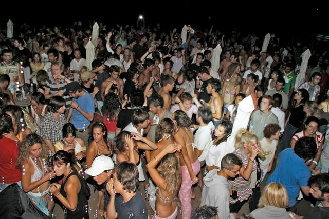 beach party